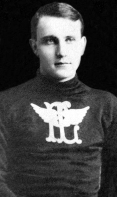 Canadian ice hockey player Bert Morrison of the Portage Lakes Hockey Club in the 1903–04 season.